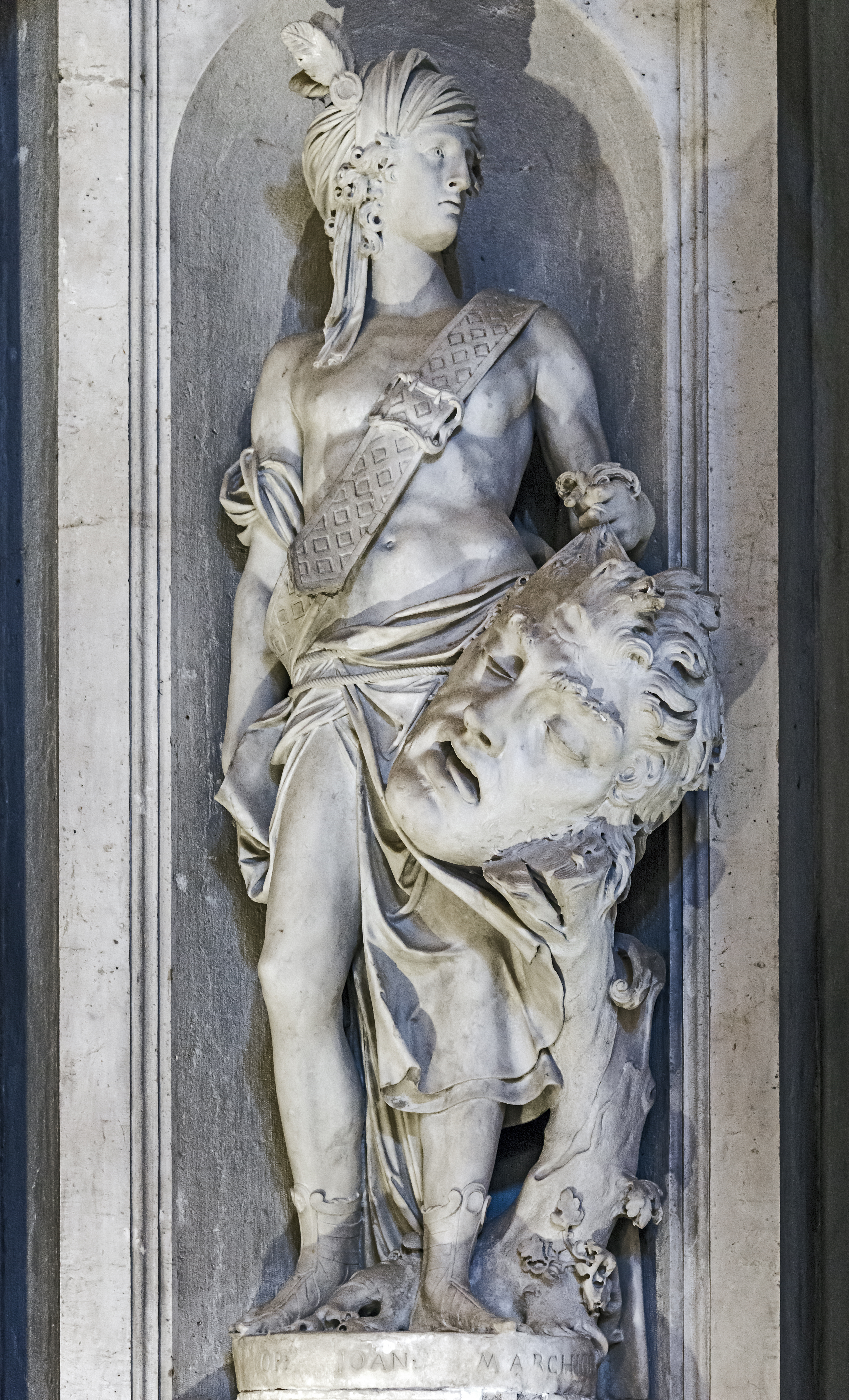 Church of San Rocco in Venice - "David", sculpted by Giovanni Marchiori in 1743 for the organ loft.